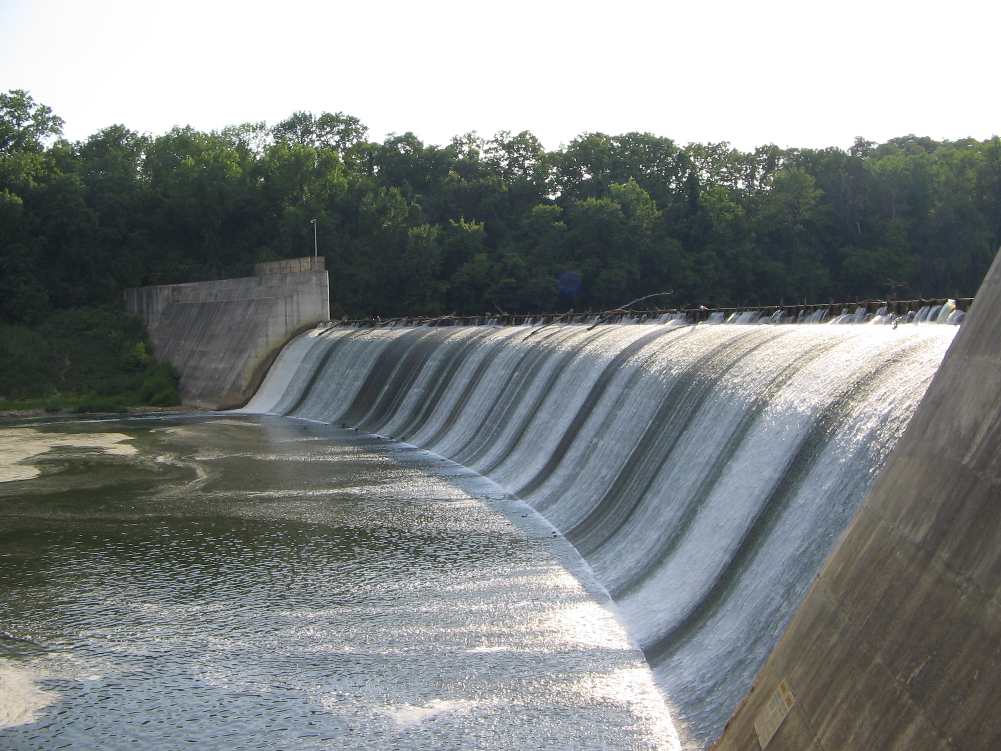 Approach, spillway, and stilling basin of Griggs Dam, located in Columbus, Ohio. This picture was taken while the dam was at a slightly below average discharge rate.